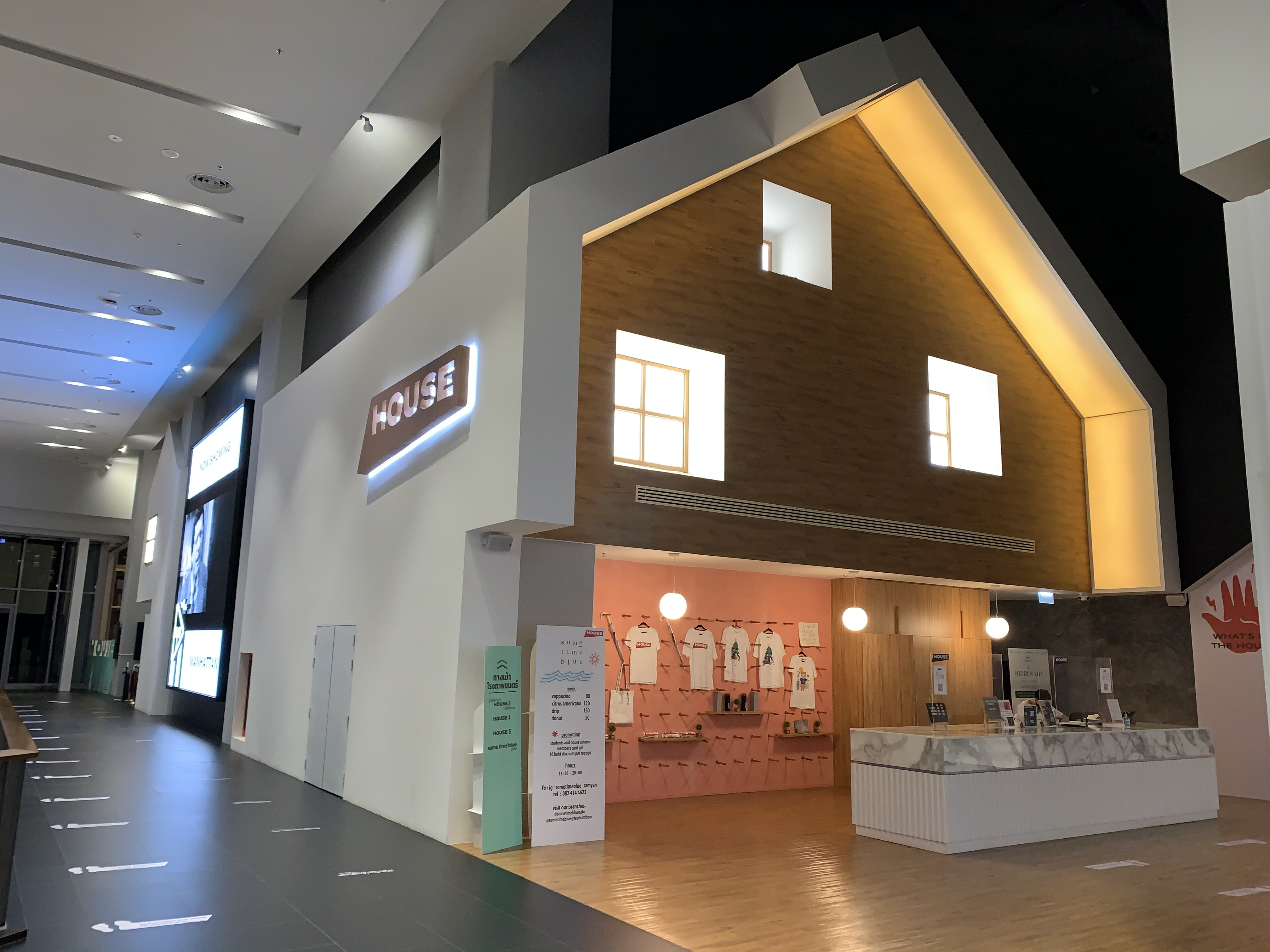 House Cinema, Samyan Mitrtown